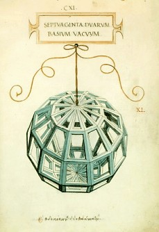 Leonardo da Vinci's 72 sided polyhedron resembling a sphere.